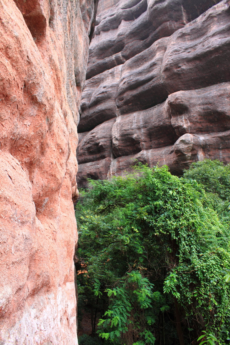 Danxia